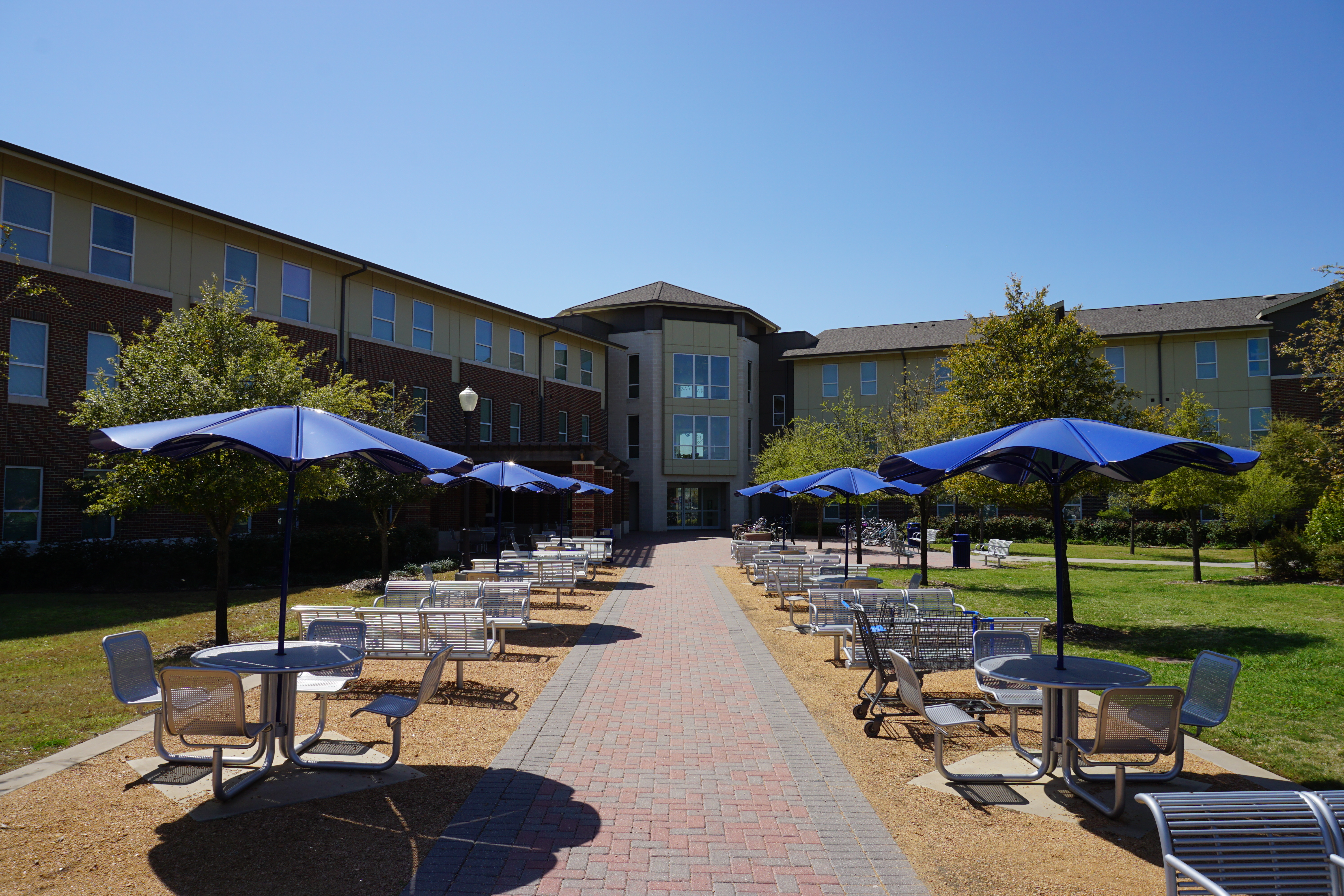 Pride Rock Residence Hall on the campus of Texas A&M University–Commerce in Commerce, Texas (United States).